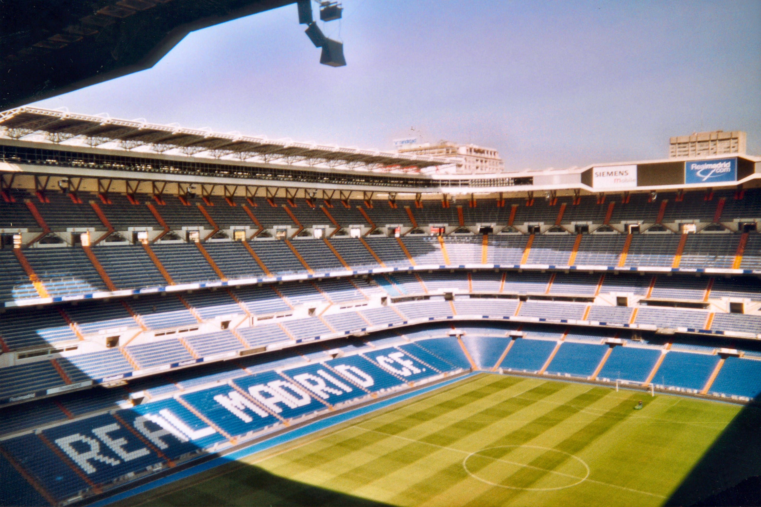 Bernabeu stadium, home of Real Madrid. Camera: Disposable 35mm Date: April 2005